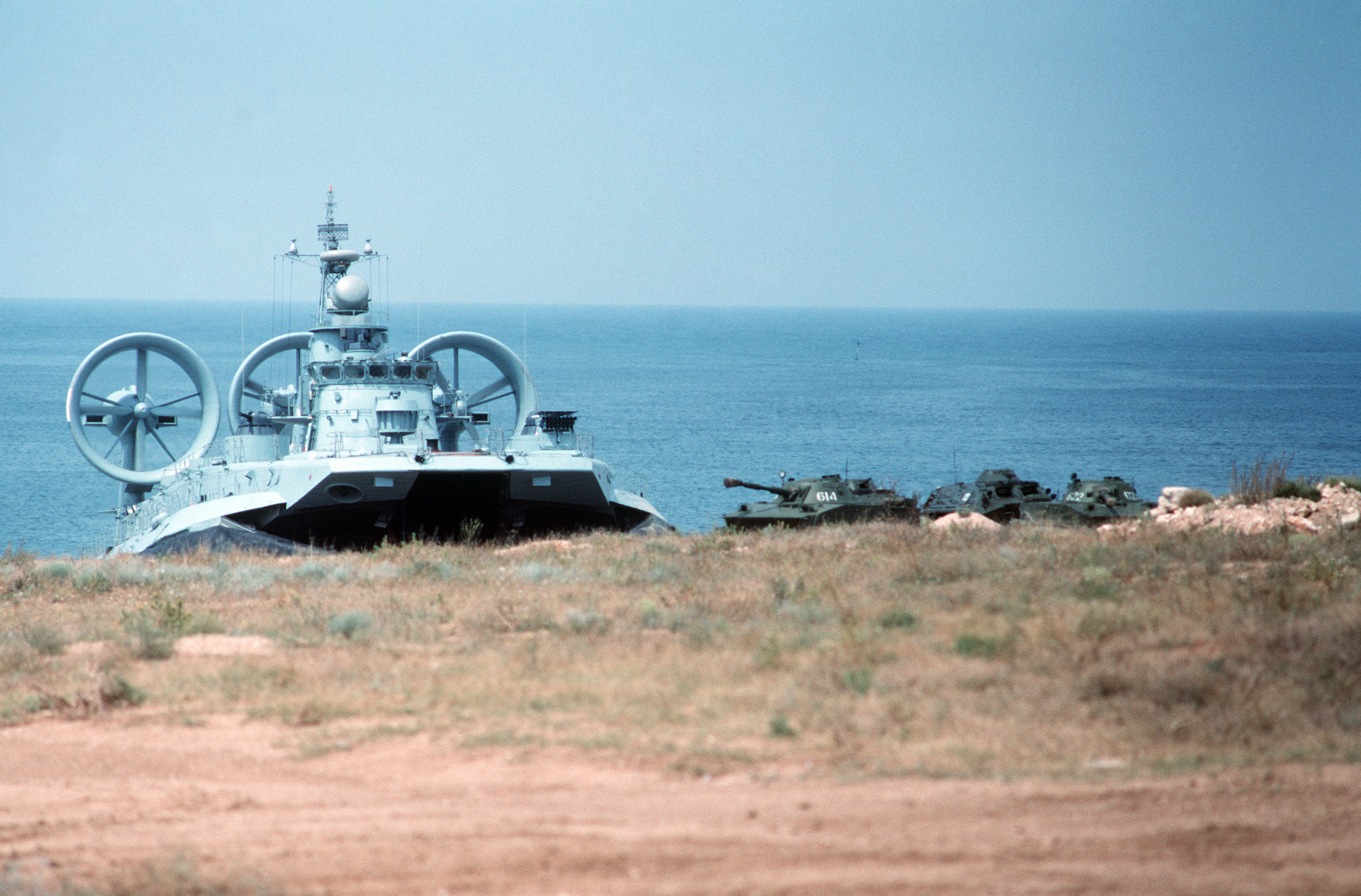 A starboard bow view of a Soviet Pomornik class air cushion landing craft, onshore next to two PT-76 light amphibious tanks with a BTR-60PB armored personnel carrier in between them.